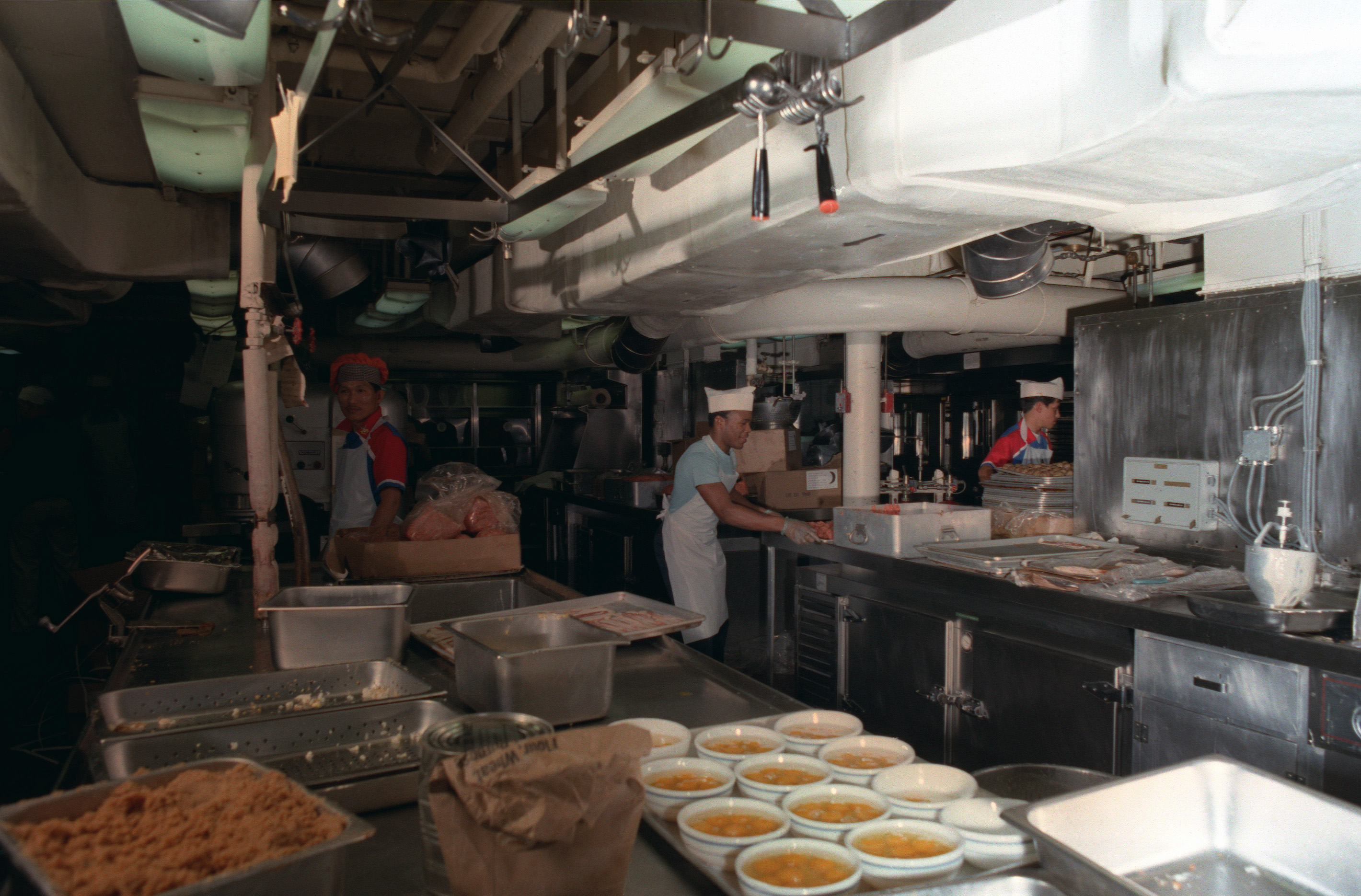 Crewmen prepare food in the galley aboard the nuclear-powered aircraft carrier USS ENTERPRISE (CVN 65).